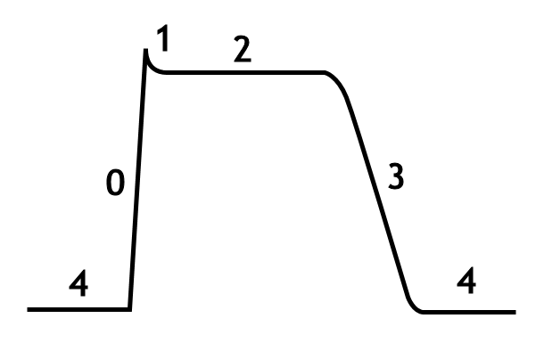 Basic cardiac action potential (with labels) - all languages.